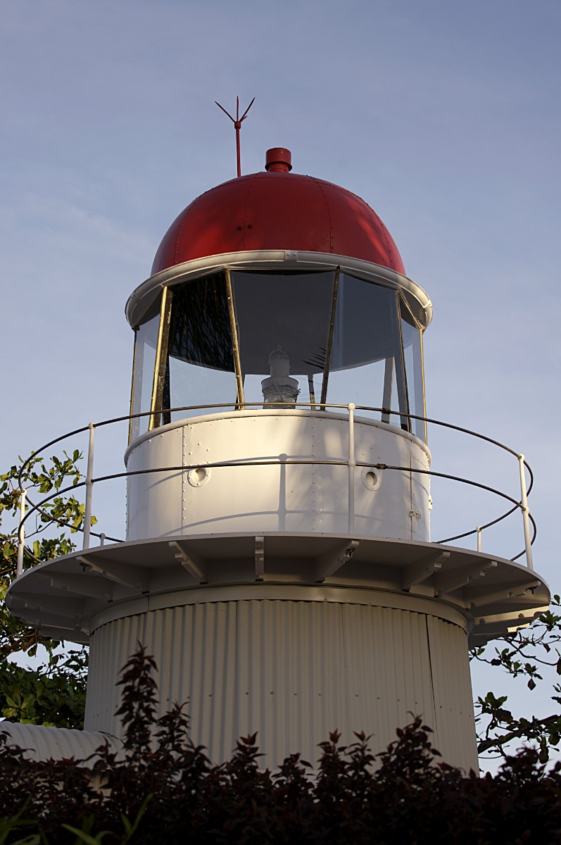 The Bay Rock lighthouse at the Maritime Museum at the South Bank of Townsville. Inactive since the early 1980s. 8 m (26 ft) wood frame tower covered by galvanized iron sheets, with lantern and gallery. Lighthouse painted white; lantern dome is red. This lighthouse was originally located atop a rocky islet on the Northwest side of Magnetic Island about 20 km (13 mi) north of Townsville; it was replaced by a small fibreglass beacon. In 1992 it was relocated to the Townsville Maritime Museum, where it was restored by Queensland Transport. The museum was expanded and refurbished in 2001; it exhibits a collection of Fresnel lenses from the former Penrith Island, Albino Rock, Heath Reef, and Duyfken Point lighthouses. Located on the south side of Ross Creek near down-town Townsville. This image, features on the University of North Carolina's site, on Lighthouses of Australia: Queensland's East Coast. This image will also feature on Wikipedia.